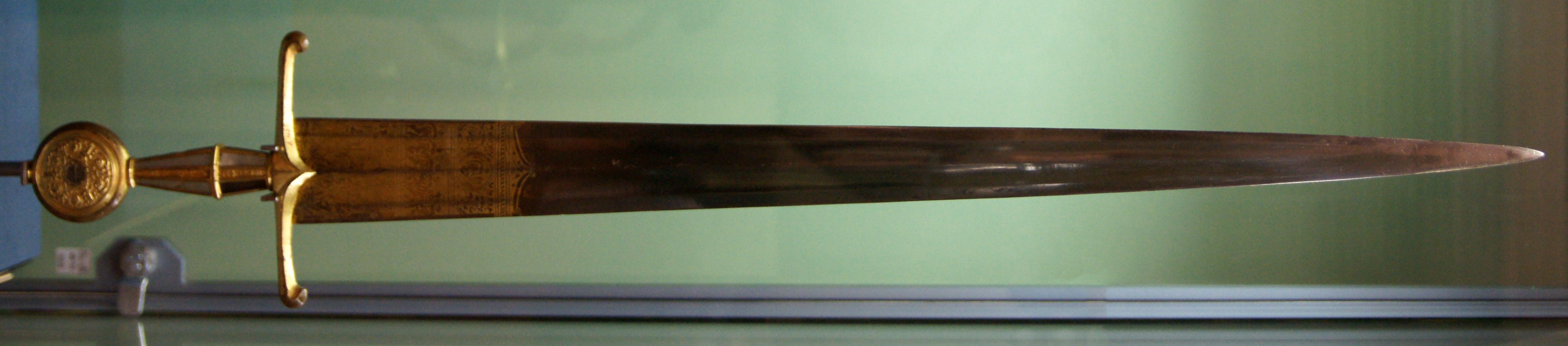 Sword of Condottiere Gian Giacomo Trivulzio of Milan, Marshal of France.